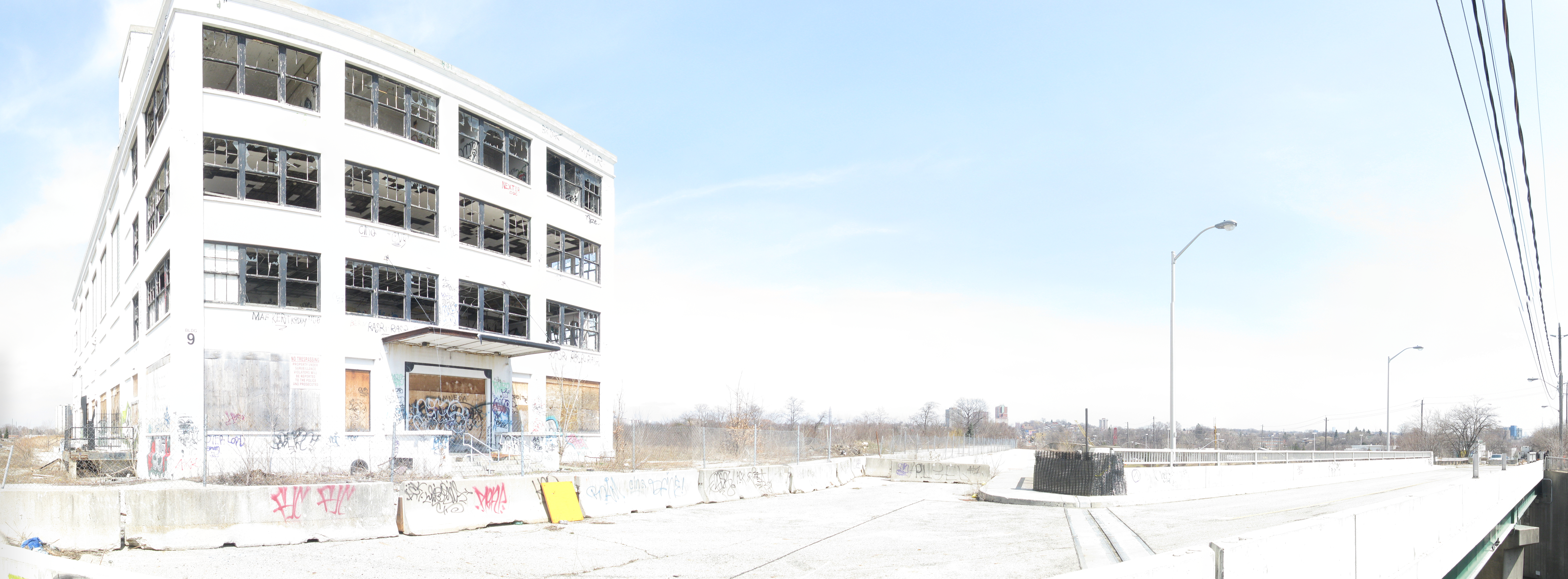 Derelict Kodak building, Mt Dennis. The TTC, GO Transit, and Metrolinx plan on putting a transit hub on this site. The site is several acres. It will be within a stone's throw of the western terminus of the Eglinton Crosstown LRT, and the maintenance and storage facilities will be here. There will be a fifteen bay bus terminal, and a new GO train station.